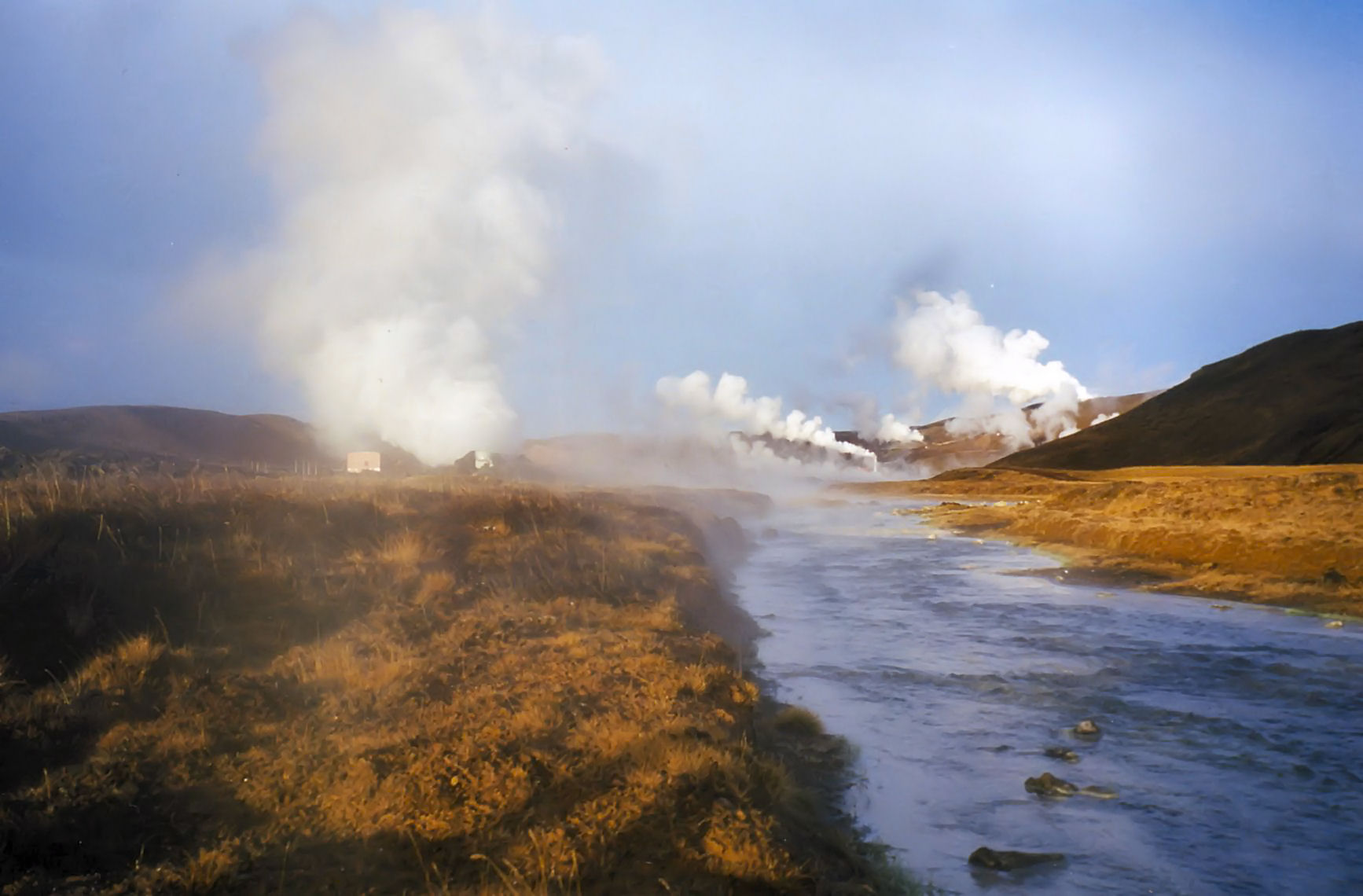 picture shot by uploader Category:Volcanoes of Iceland